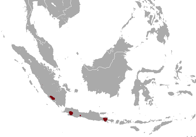 Indonesian Mountain Weasel (Mustela lutreolina) range